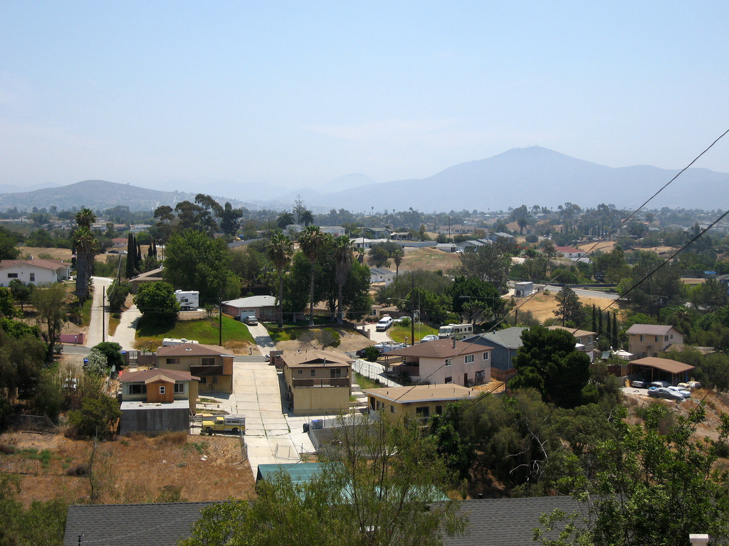 North Encanto, looking south. Coords: 32°43' 04" N, 117°3' 41" W